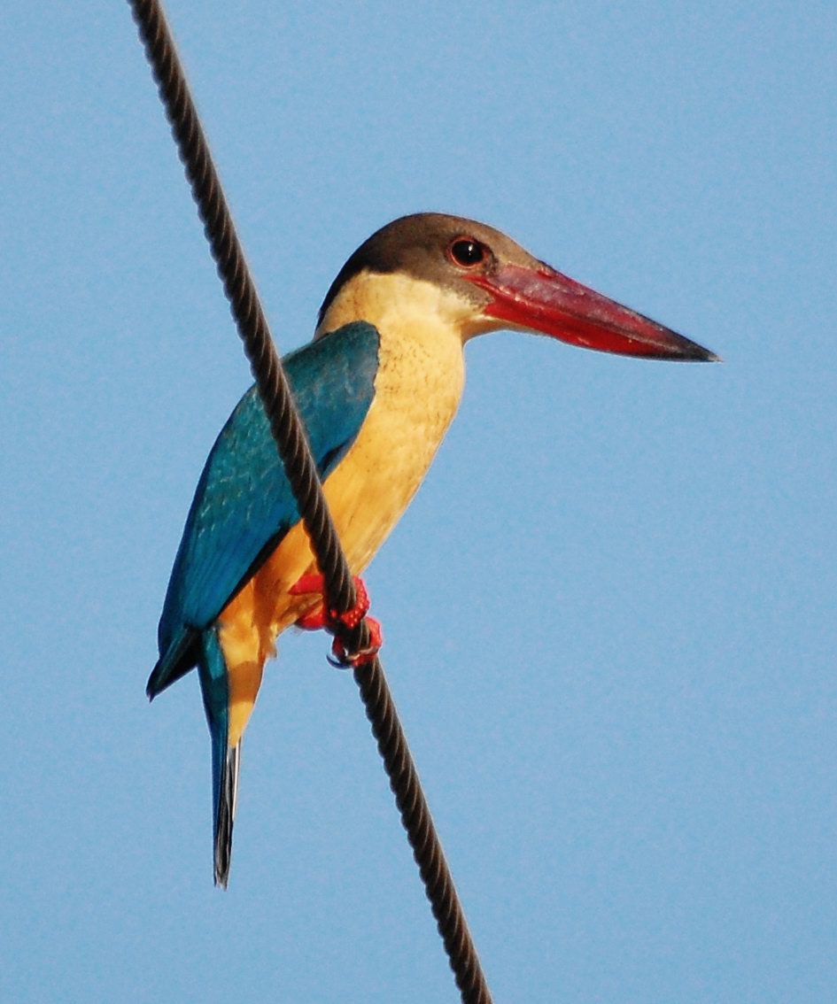 Stork-billed Kingfisher, perching on a wire